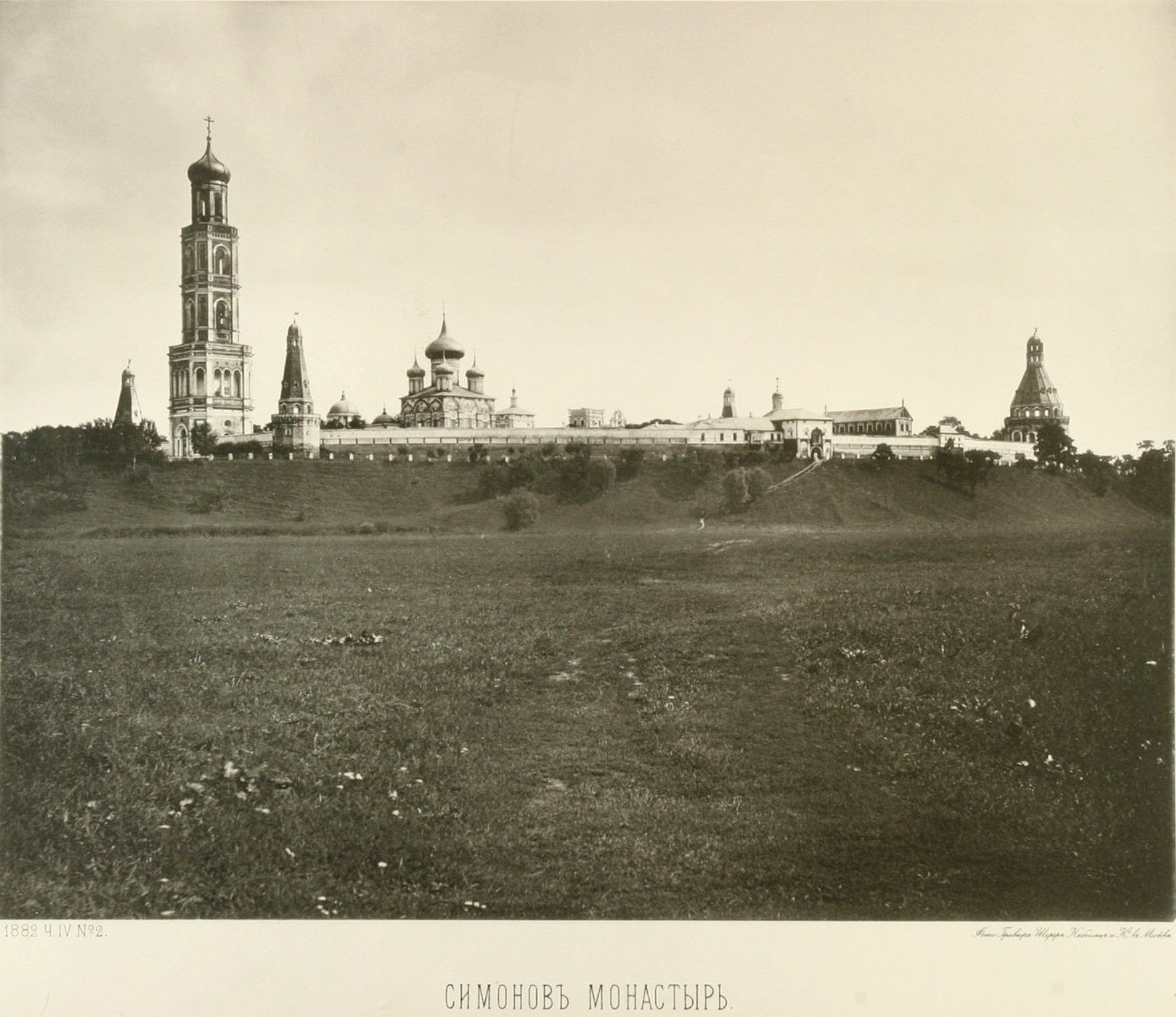 Moscow. Simonov Monastery